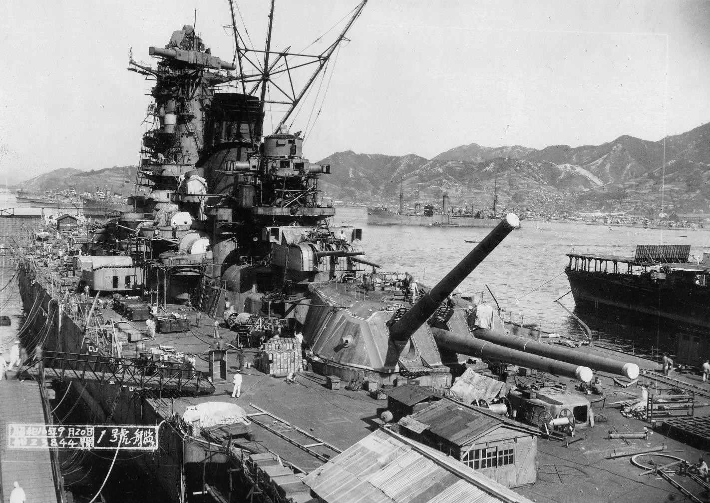 The Japanese battleship Yamato in the late stages of construction alongside of a large fitting out pontoon at the Kure Naval Base, Japan, 20 September 1941. The aircraft carrier Hōshō is visible at the extreme right. The store ship Mamiya is anchored in the center distance. Note Yamato's after 460mm main battery gun turret, and superfiring 155mm secondary battery gun turret.